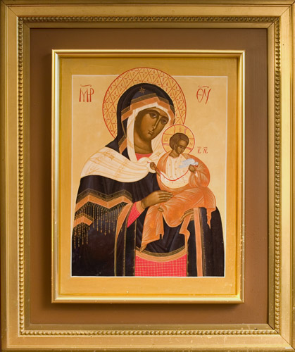 Photography of an icon